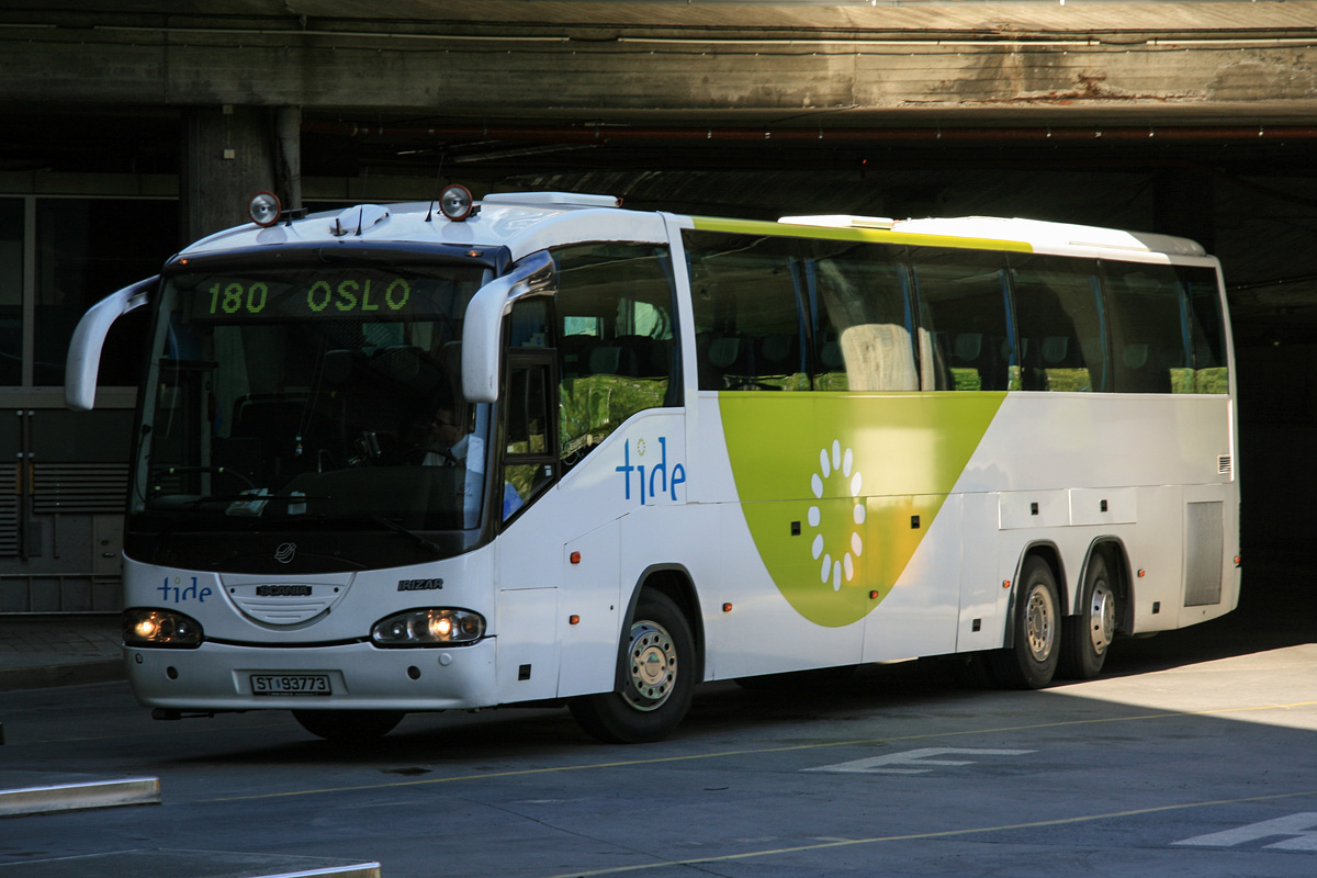 Scania K124EB6X2*4NI420 - Irizar Century II 15.35 in Oslo.